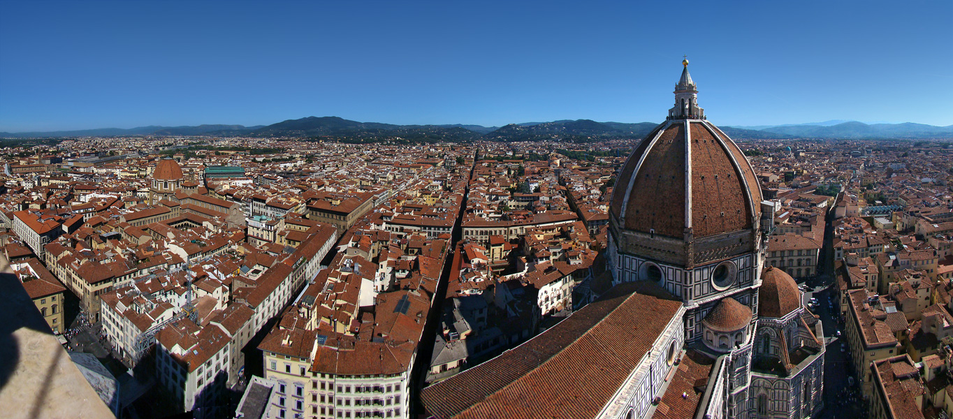 Florence, Tuscany, Italy. Panorama viewed from the top of the campanile of the Santa Maria del Fiore Cathedral, looking north. On the right in the foreground, the dome of the Cathedral. Further left, the Basilica of San Lorenzo with its orange dome. At the far left, the Basilica of Santa Maria Novella with its sharp campanile.